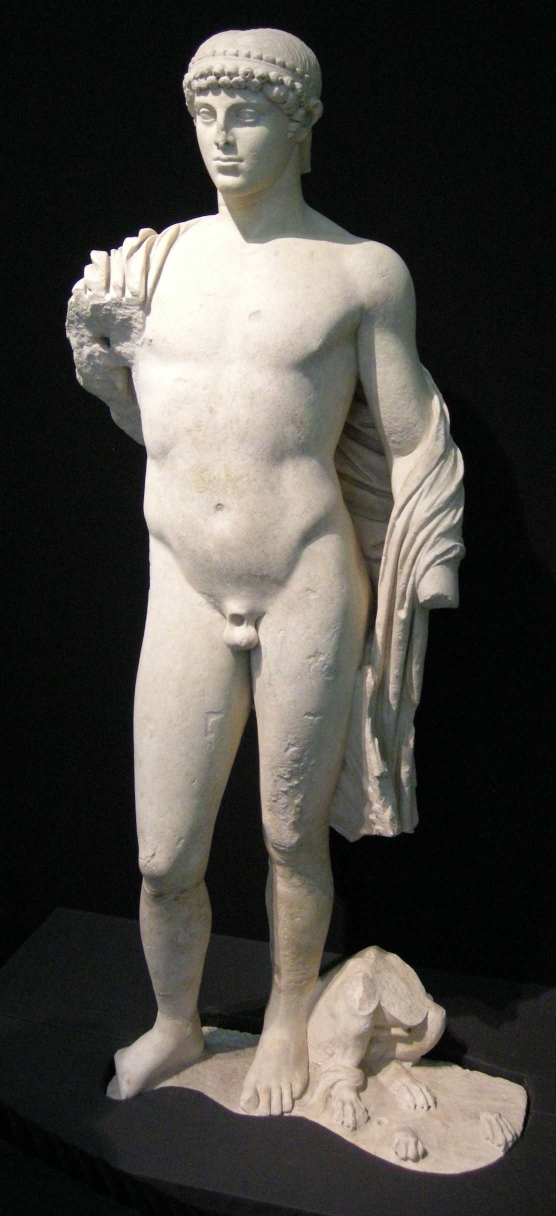 read filename please (it)